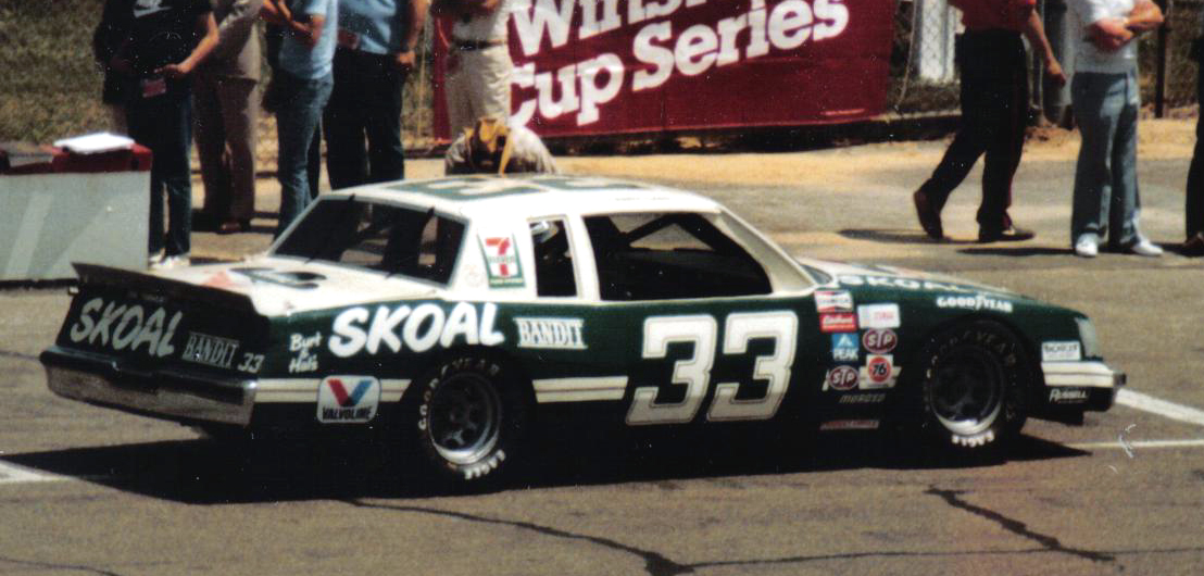 The Hal Needham owned Skoal Bandit Buick #33 of Harry Gant. Harry finished 18th in the 1983 Van Scoy 500.